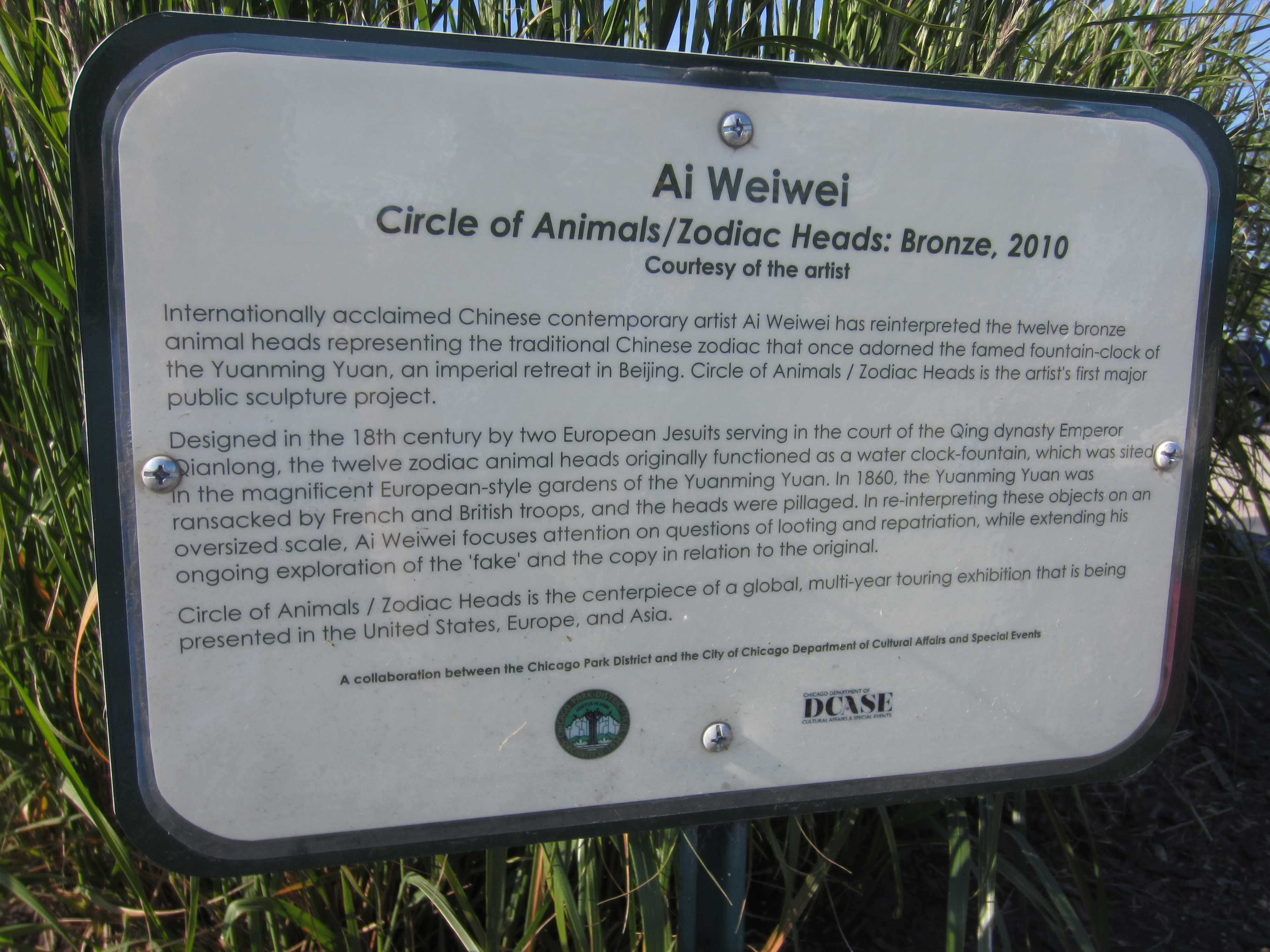 Chicago, Illinois, June 2015